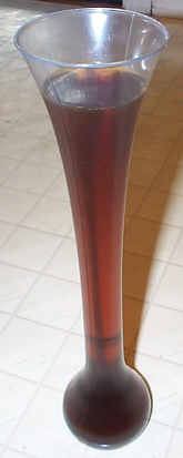 Used vegetable cooking oil has a brownish color to it. When filtered, it becomes transparent, but still retains the brownish color throughout.